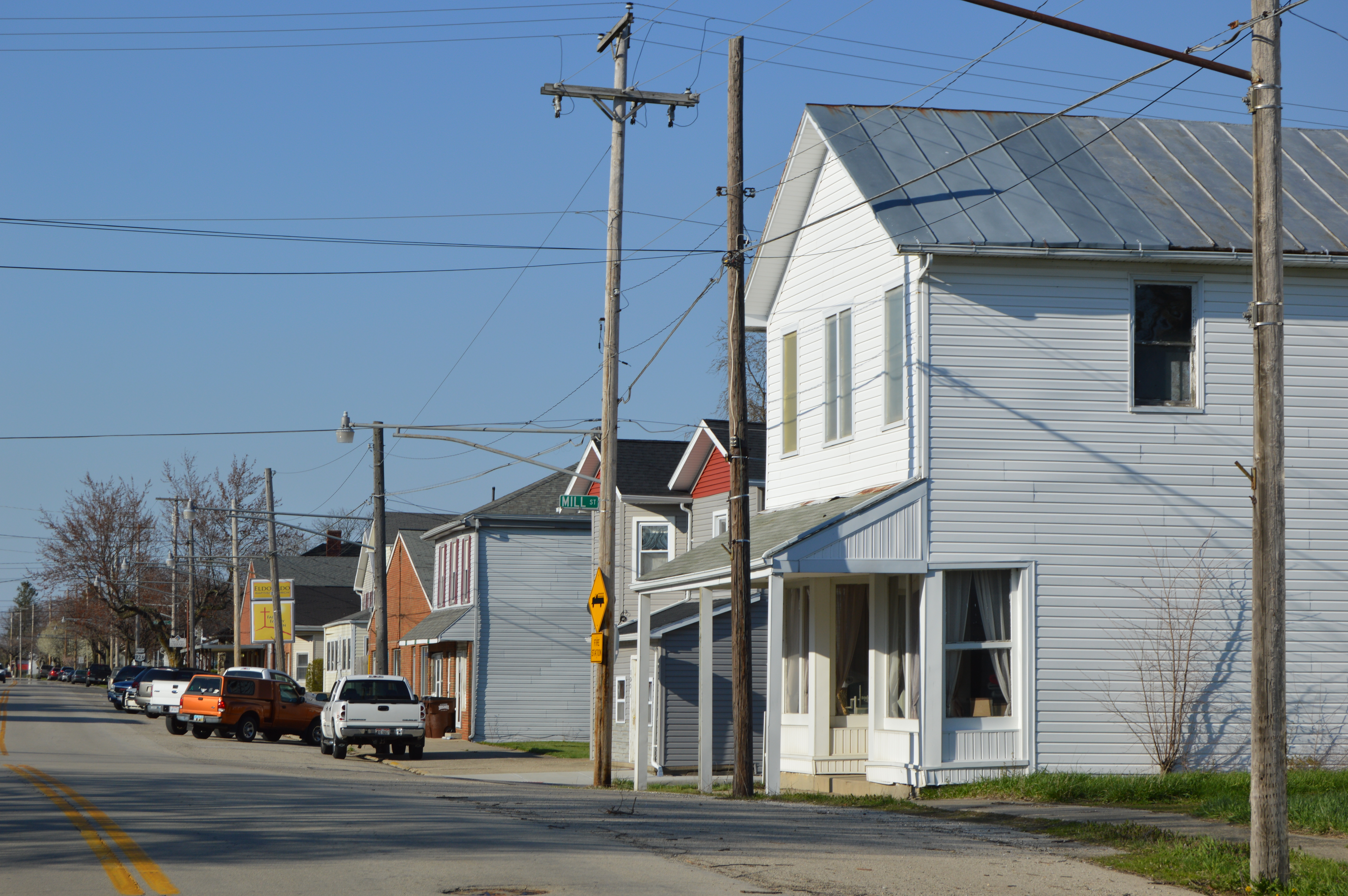 Buildings on the eastern side of Main Street (State Route 726) at Mill Street in Eldorado, Ohio, United States.